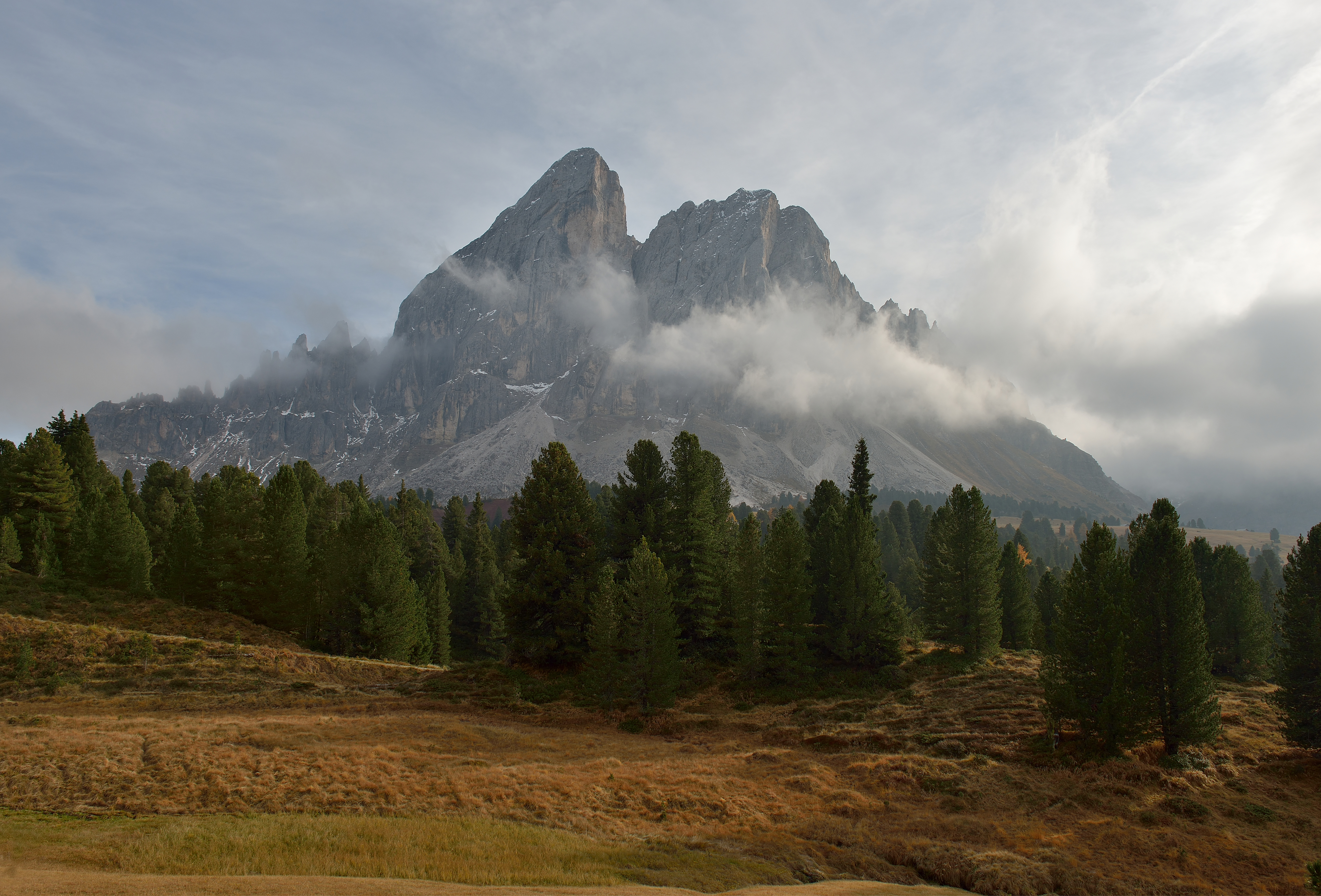 The Peitlerkofel mountain from the Würzjoch